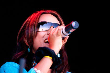 Suzana Ansar on stage at Boishakhi Mela in London